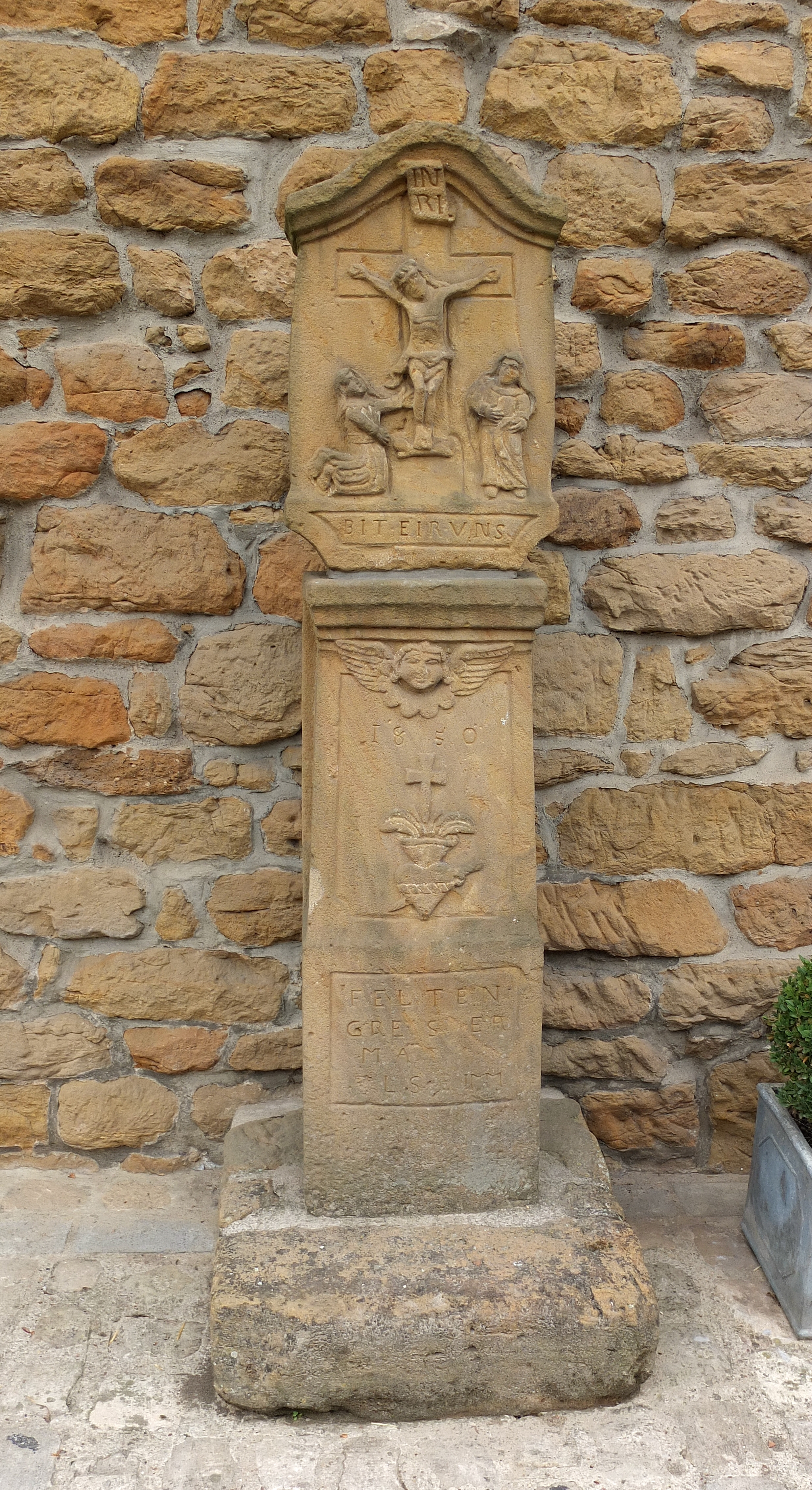 Wayside shrine (1850) at Blumenthal, Luxembourg.